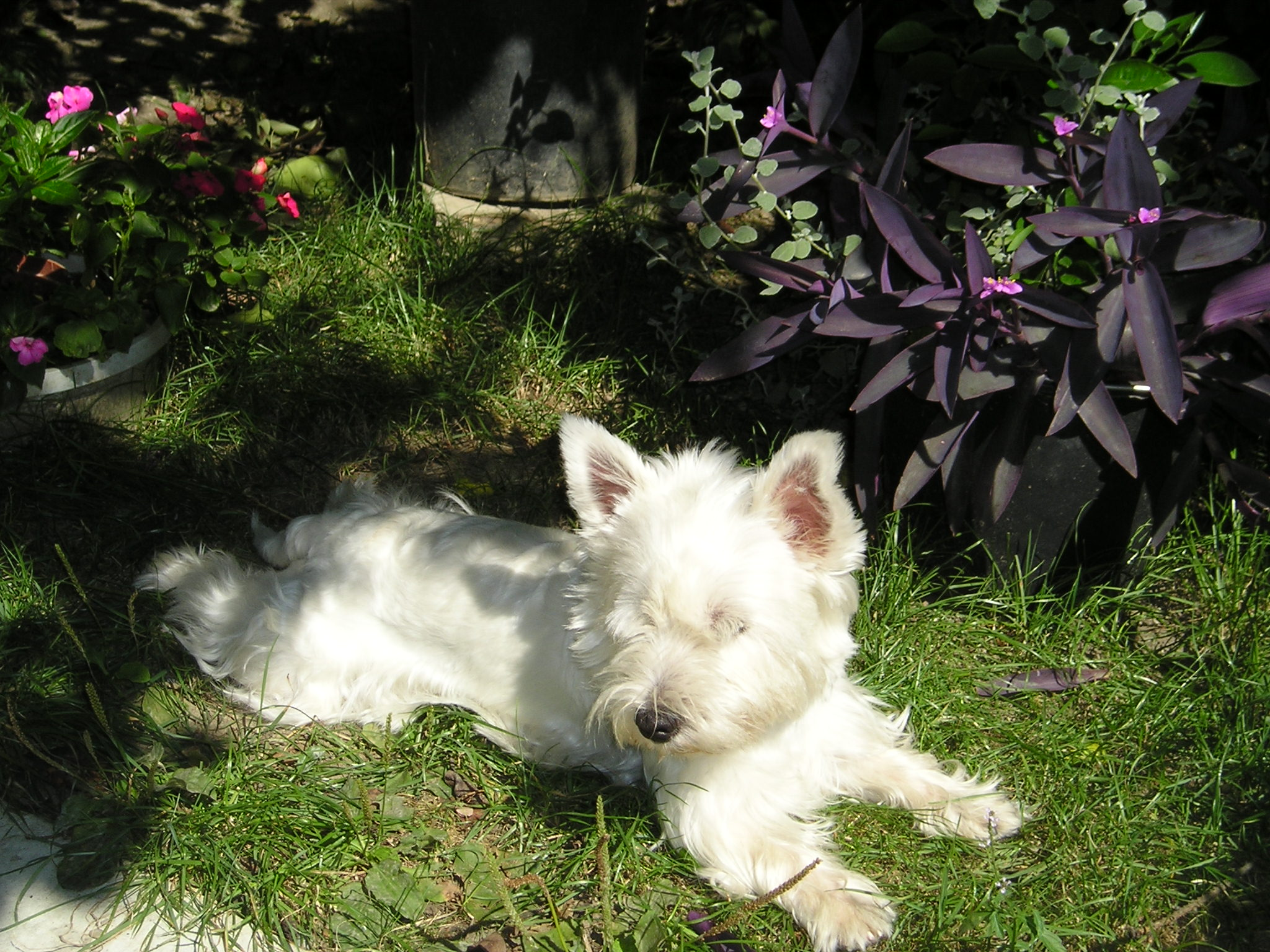 Westy White Terrier